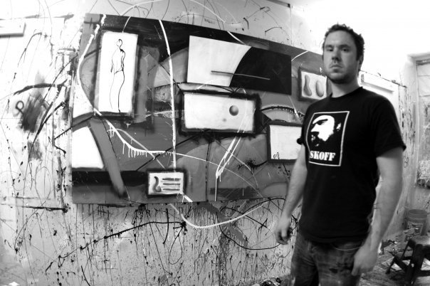 Skoff in his Studio